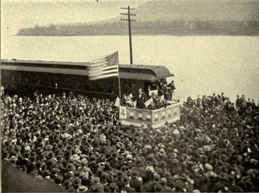 Democratic presidential candidate William Jennings Bryan addresses a crowd in Wellsville, Ohio during the campaign.